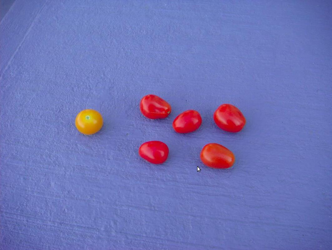 On left a traditional cherry tomato of an orange variety. On the right grape tomatoes with the characteristic plum shape.